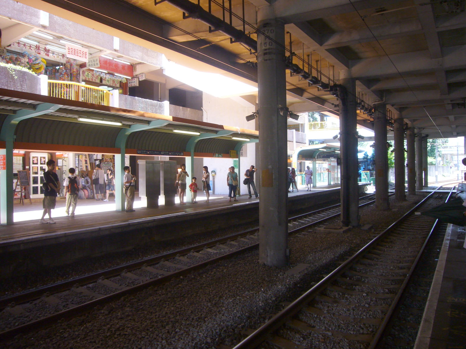 LRT On Ting Stop, MTR HK